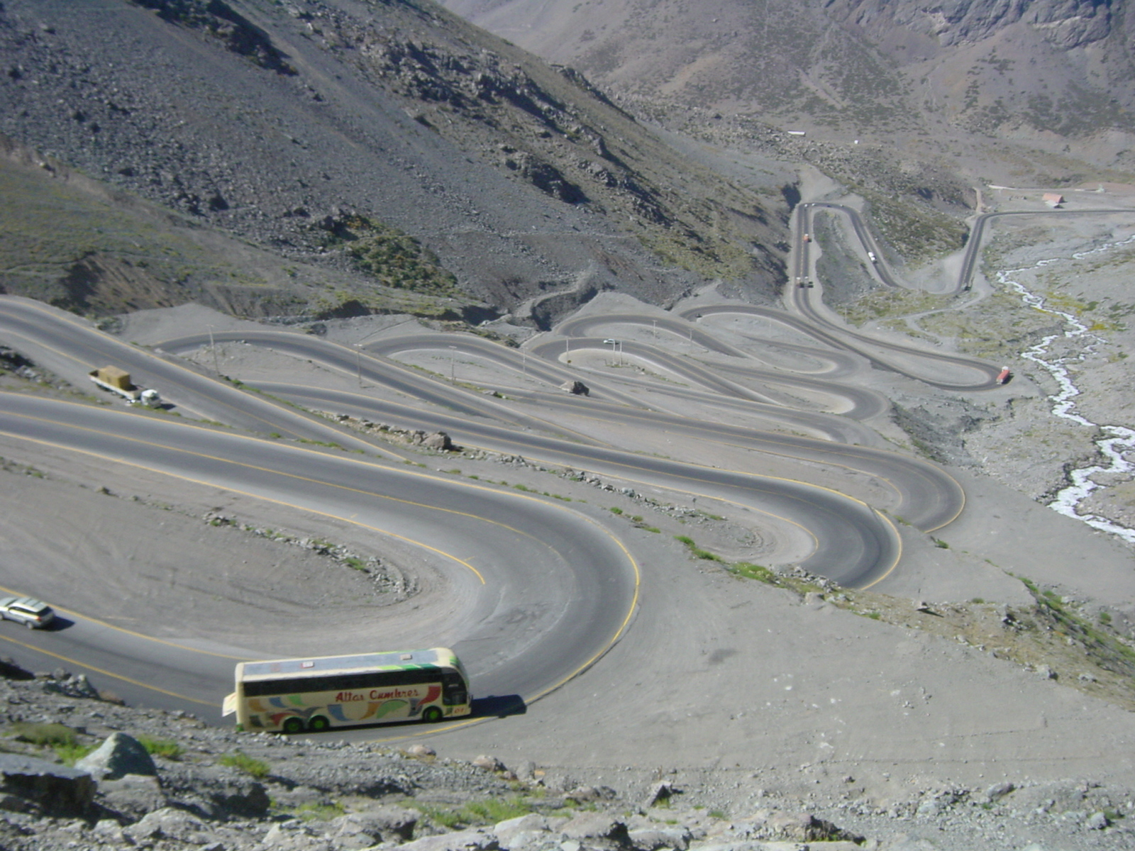 Serpentine road in Chile near Chile-Argentina border